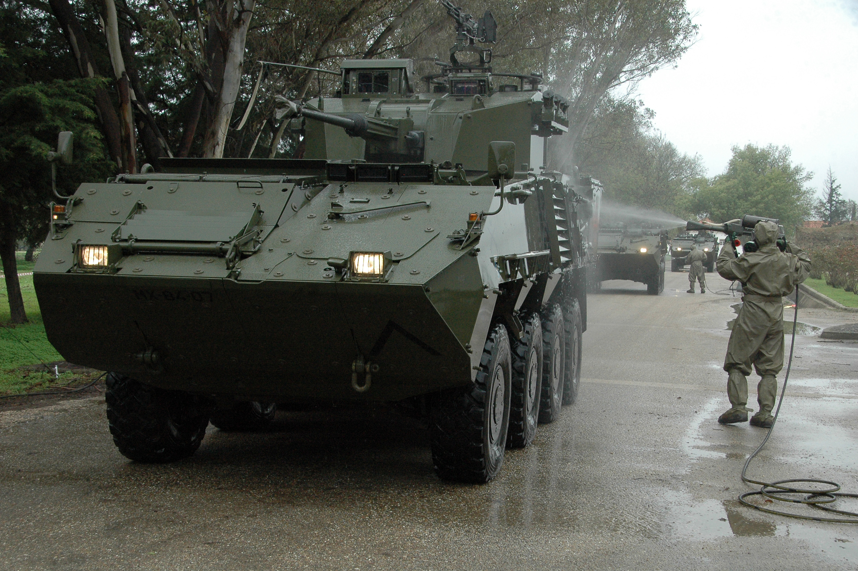 The Combined Joint Offensive Operation and the Canadian Armed Forces High Visibility Day (HVD) took place in Portugal on November 03, 2015 during NATO Trident Juncture 15 where military members and civilians had the opportunity to attend briefings and visit exercise training, including decontamination in the 1st Engineer Regiment Regiment.